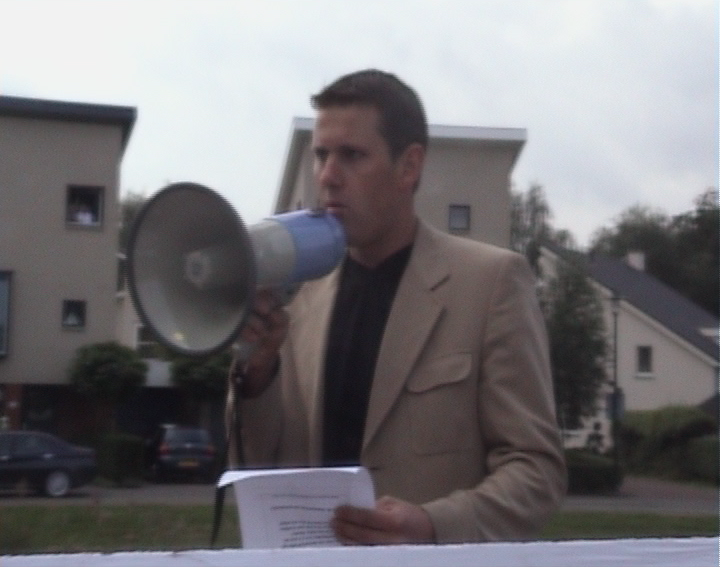 Picture of former NNP chairman Florens van der Kooi at an NNP demonstration in Dordrecht on 11 September 2004.